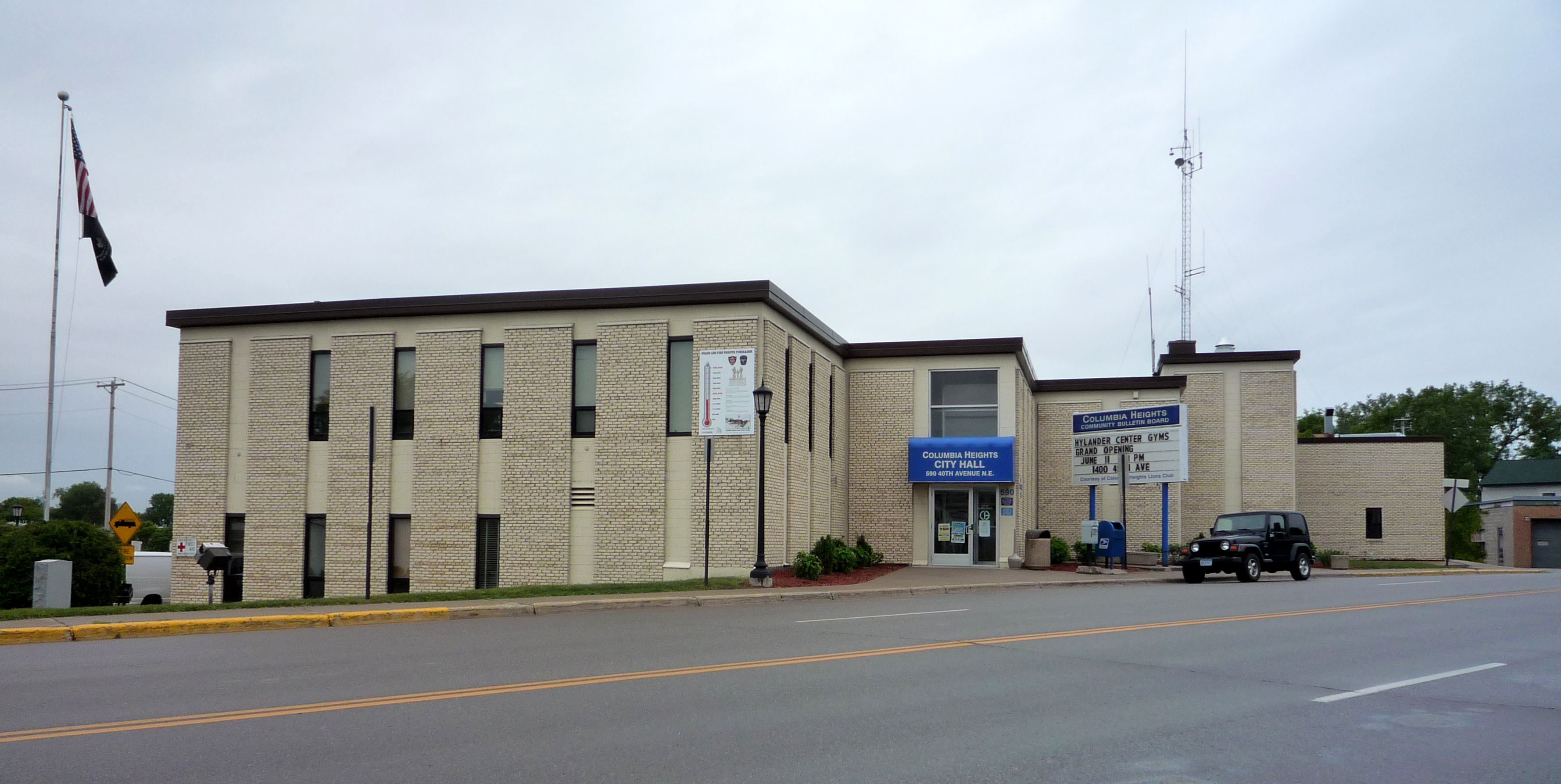 City Hall, Columbia Heights, Minnesota, USA.